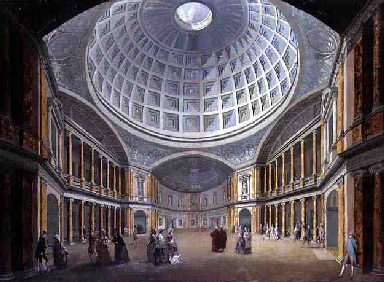 The Pantheon, Oxford Street, painting in Leeds Art Gallery